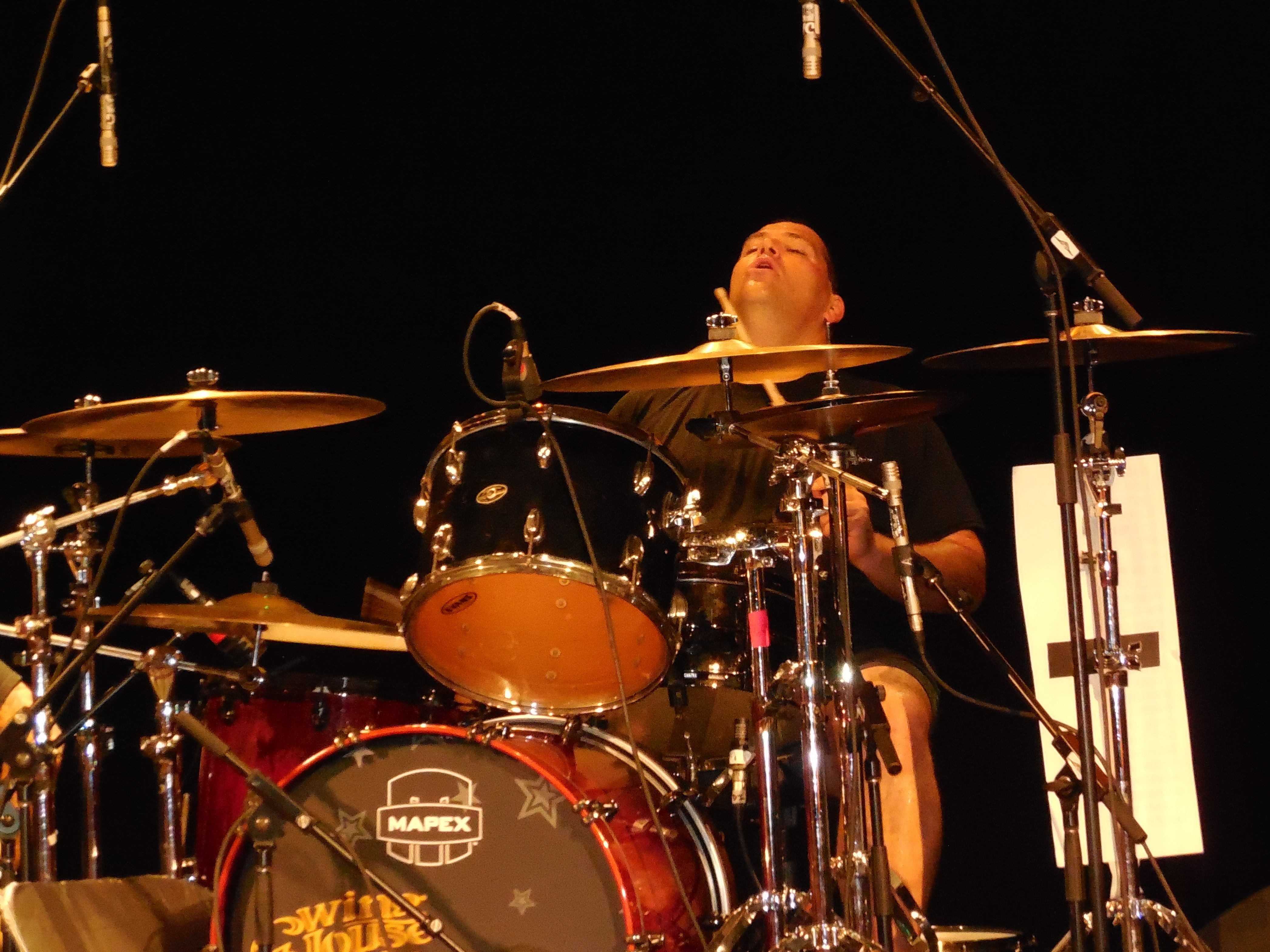 Drummer Bill Stevenson of the Descendents performing at the Fox Theater in Pomona, California on September 28, 2014.